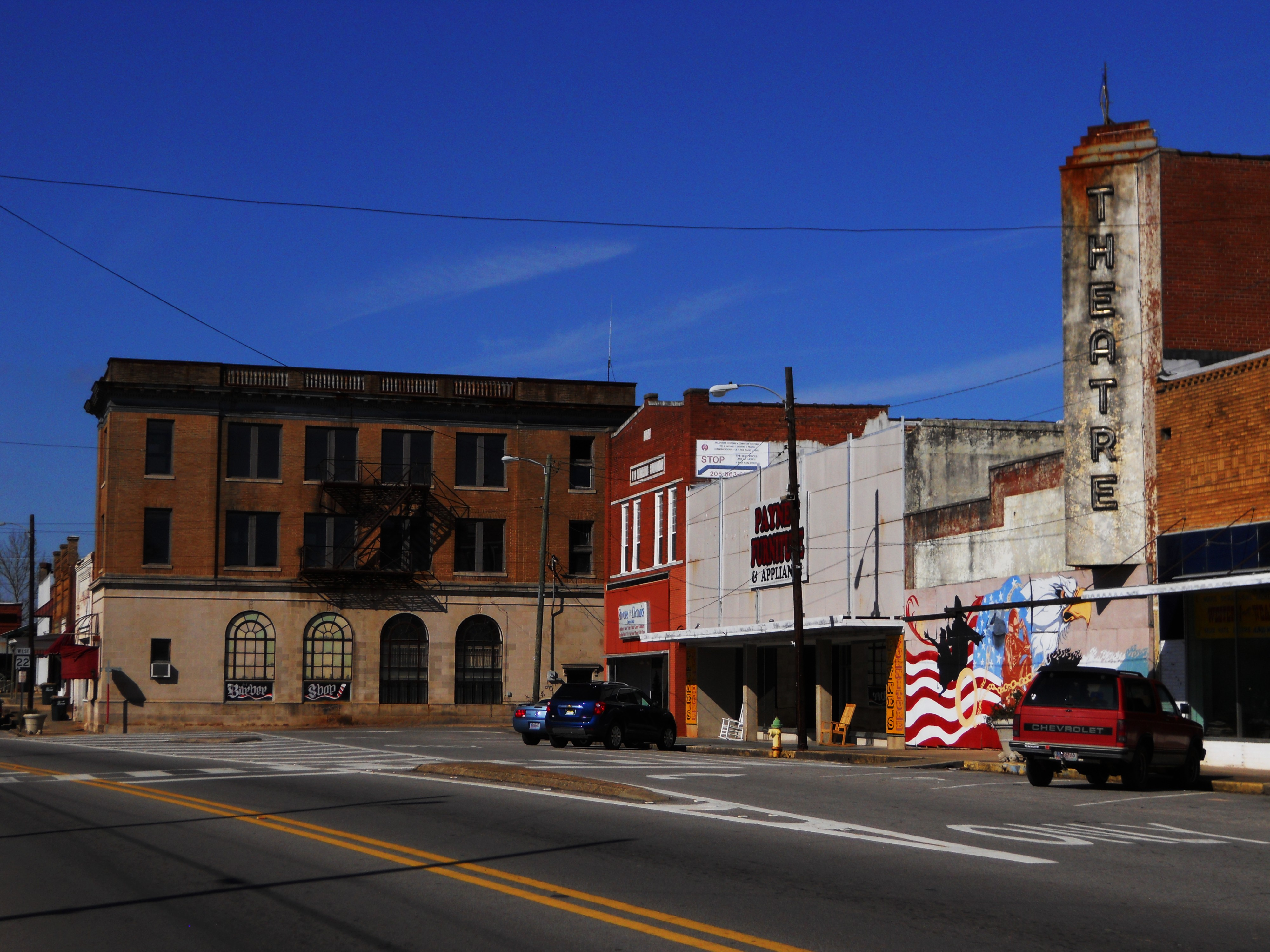 This is a digital photograph of the downtown area in Roanoke, AL.